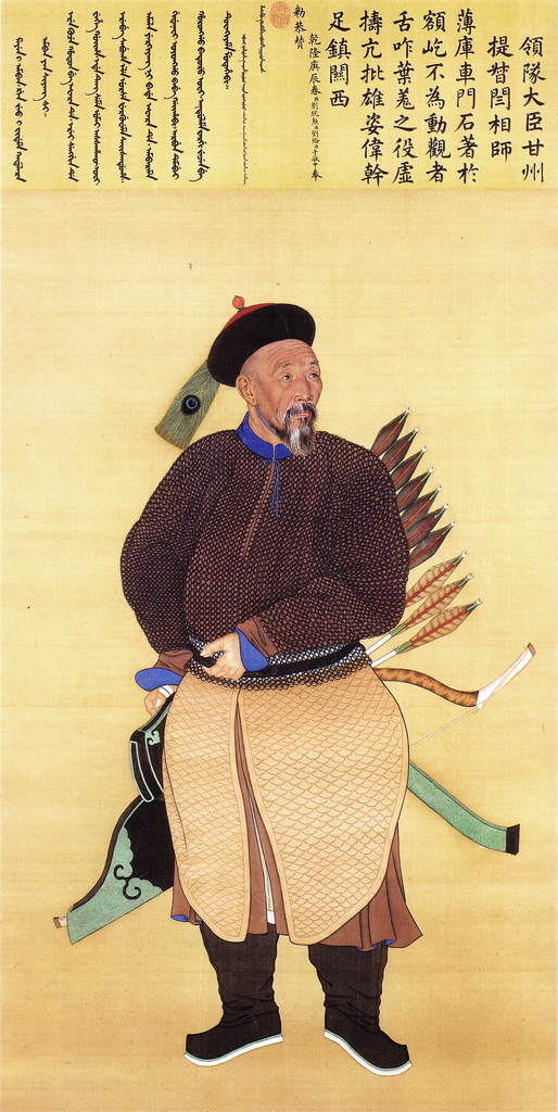 Yan Xiangshi (閆相師/阎相师, yán xiāngshī), was an officer of the Qing Army